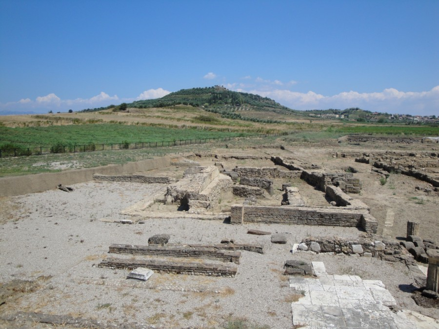 Ruins of the ancient city of Elis. The acropolis where placed the temple of Athena can be seen also.